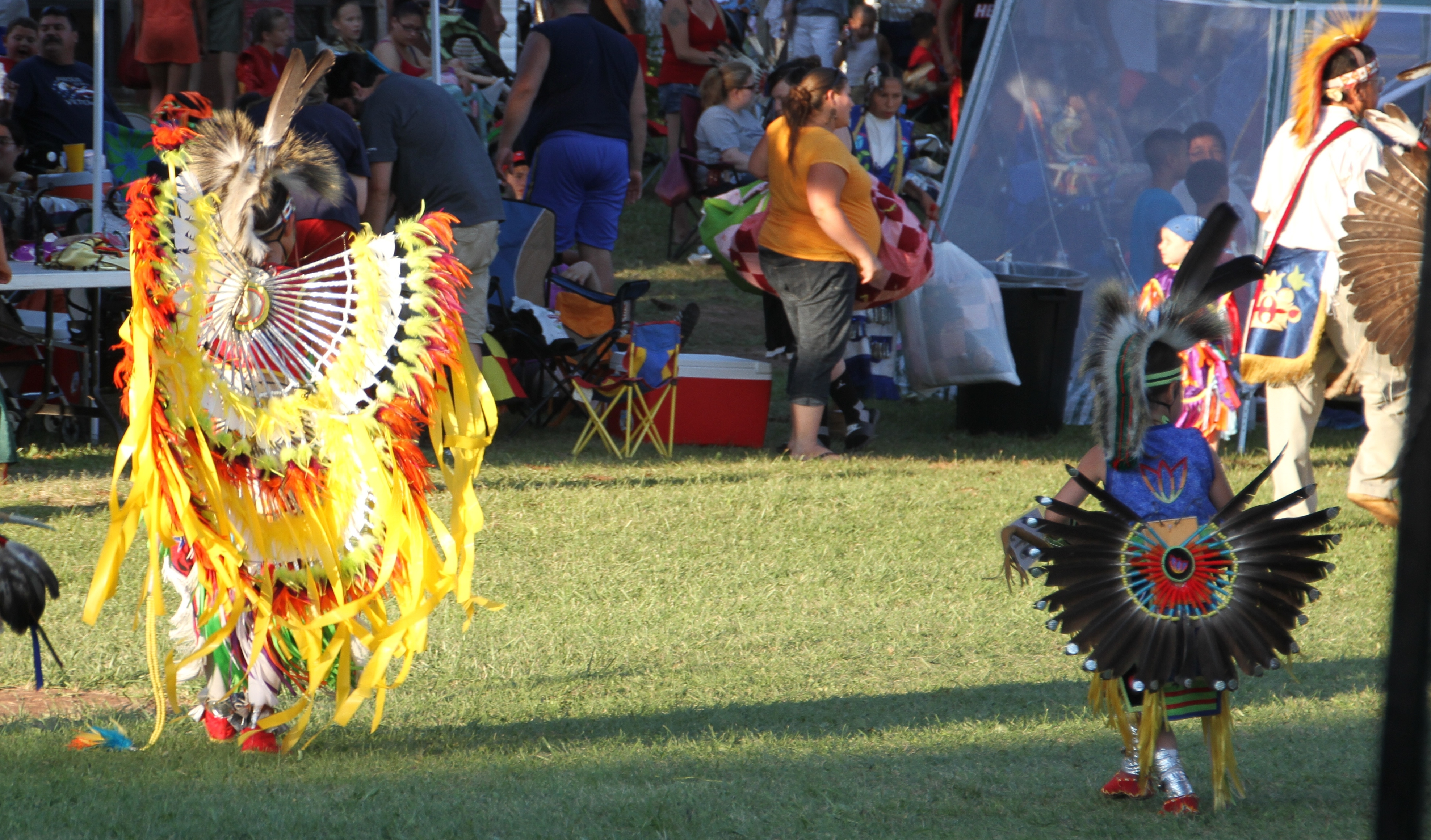 Images from the 34th powwow at Red Clif, north Wisconsin, in July 2012.